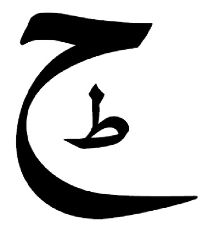 Khowar Language's special Character Jey or Jeem font created by Rehmat Aziz Chitrali